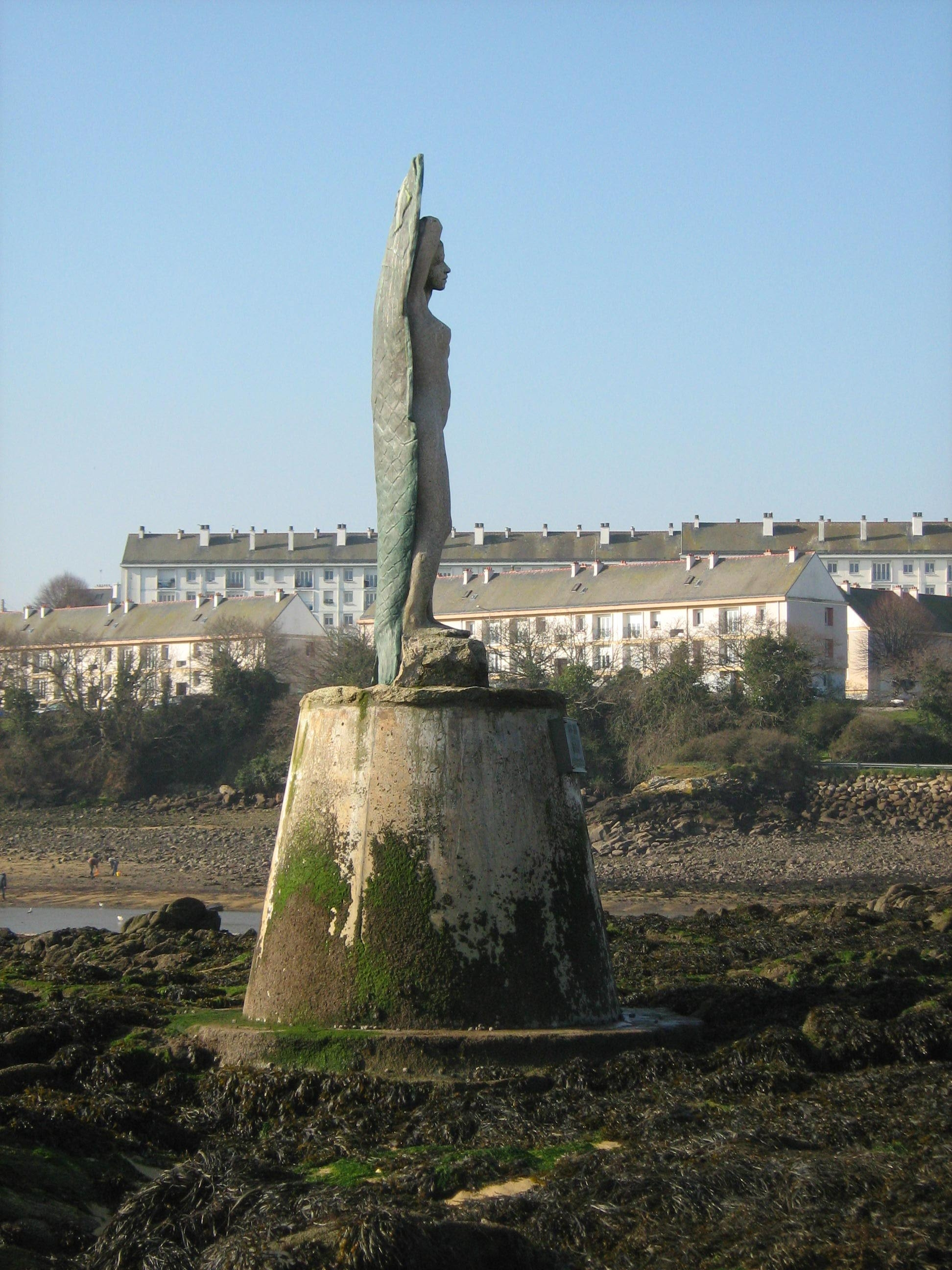 Tristan Island, Douarnenez, France: Sardine statue (half woman, half fish)